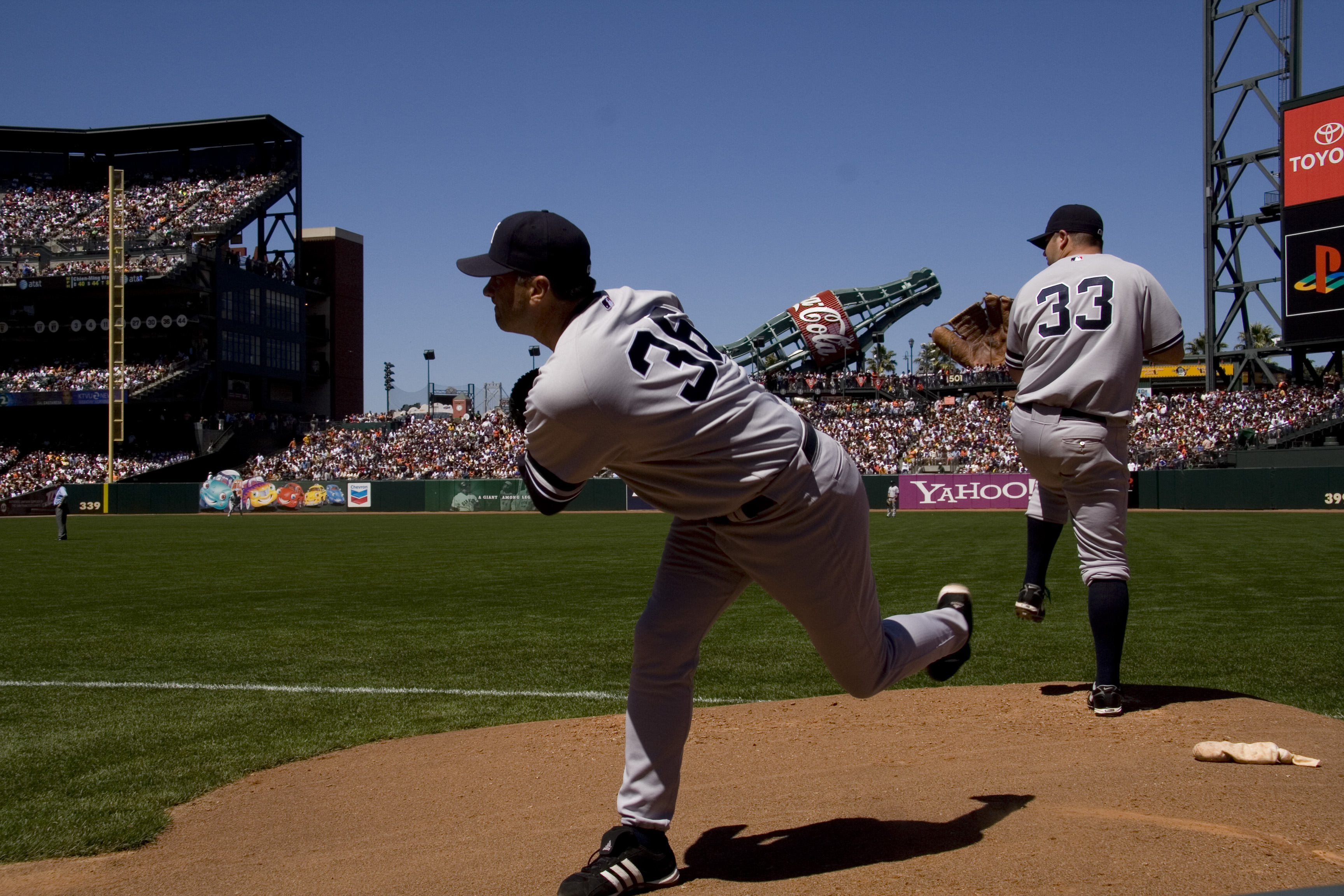 meyers and bruney warm it up